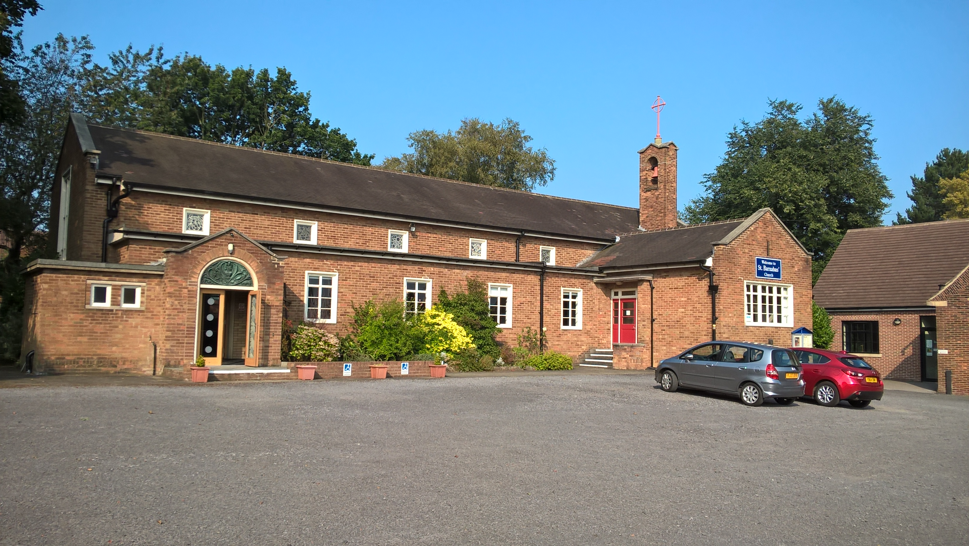 St Barnabas Church, The View, Alwoodley, Leeds LS17 7NA